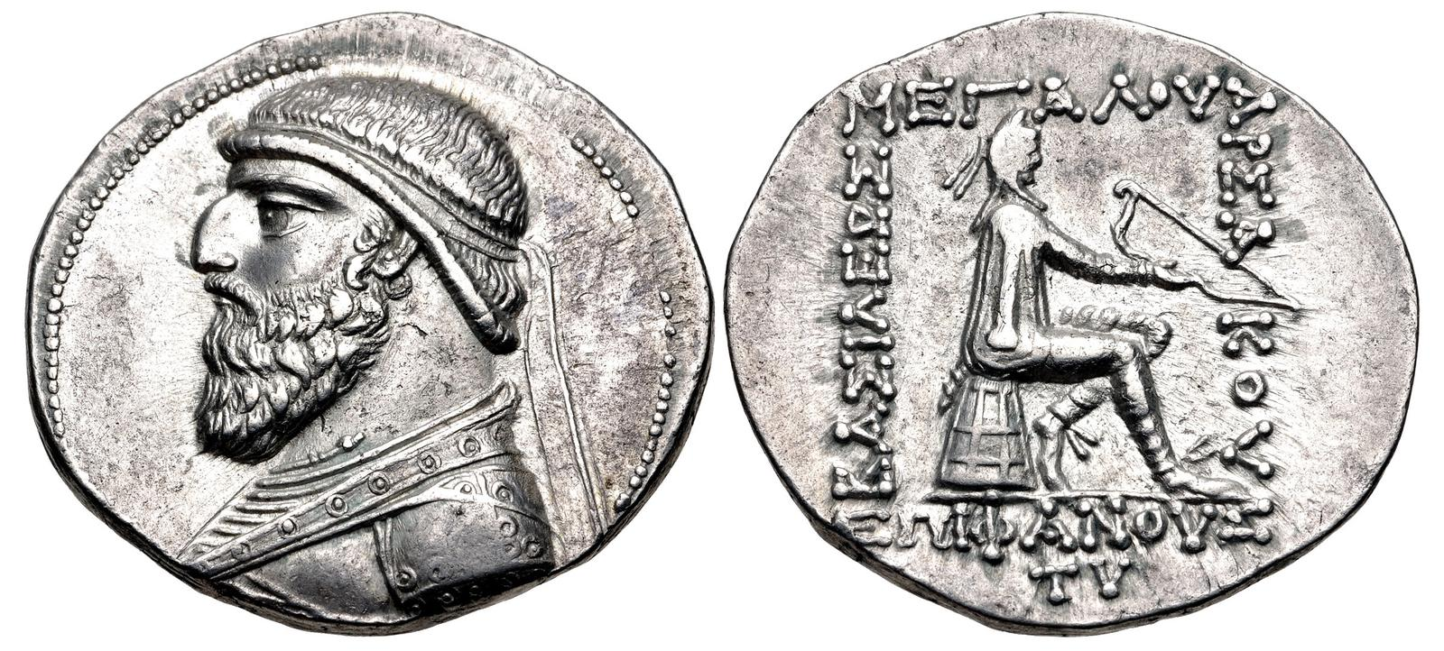 Tetradrachm of Mithridates II of Parthia, minted at Seleucia between 120 and 109 BC.